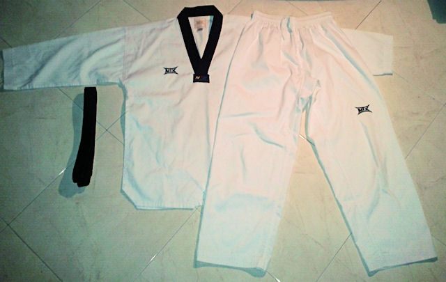 A WTF Dobok for black belts